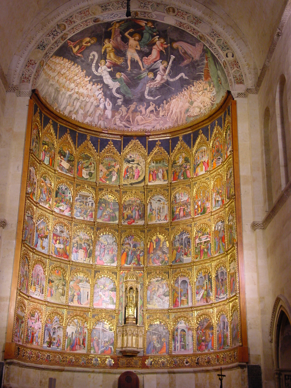 Altarpiece in the old cathedral of Salamanca (Spain), circa 1430-1450. The works are by the Italian artist Daniel Delli, better known as Dello Delli. The first 12 planks belong to him and have the best quality clearly. The altarpiece shows a cycle in the life of Virgin Mary and Jesus Christ. This altarpiece is lead by an image known as Virgin of the Vega, patron of the city.